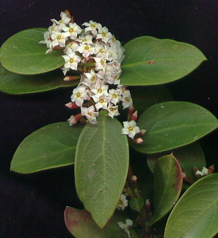 Acokanthera oppositifolia flowers and leaves